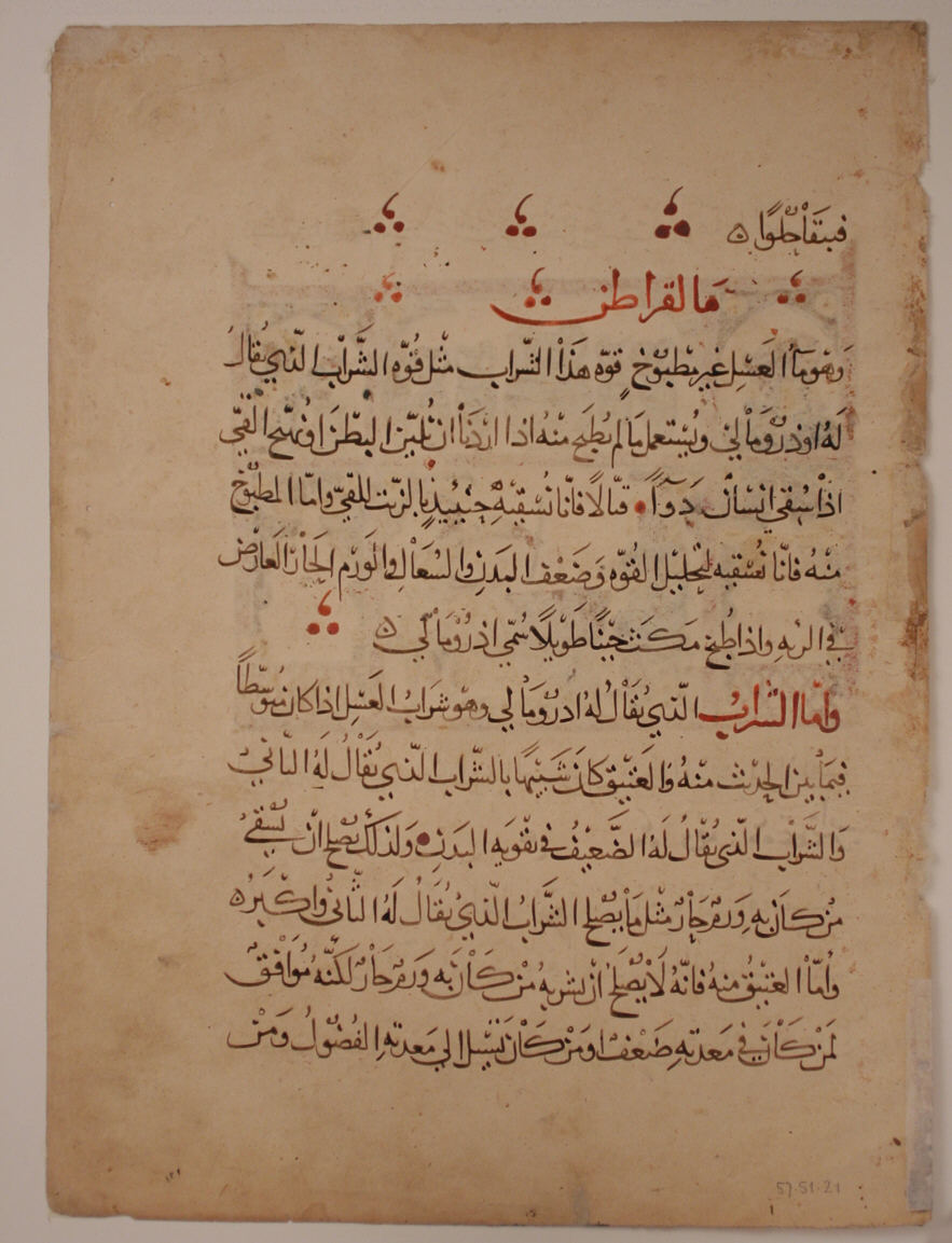 Folio from an illustrated manuscript; Codices